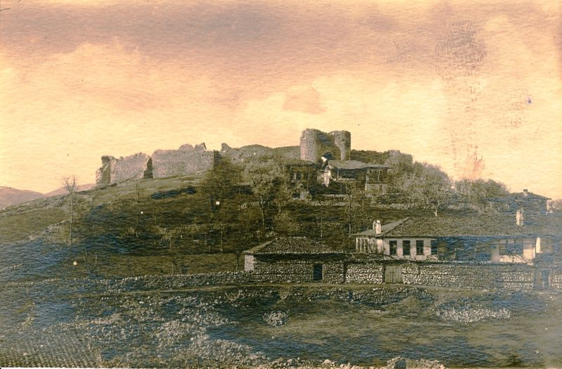 Ohrid Fortress.